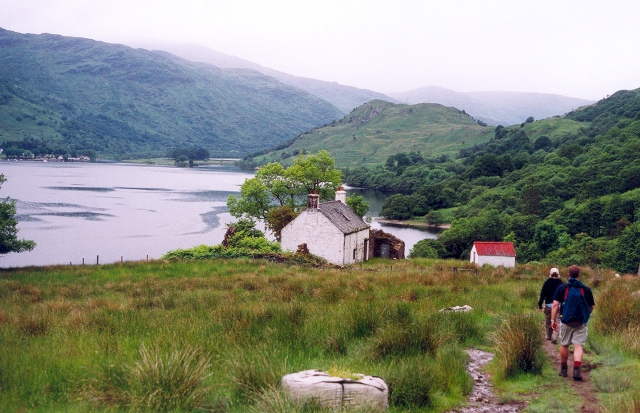 The West Highland Way at Doune on Loch Lomond.